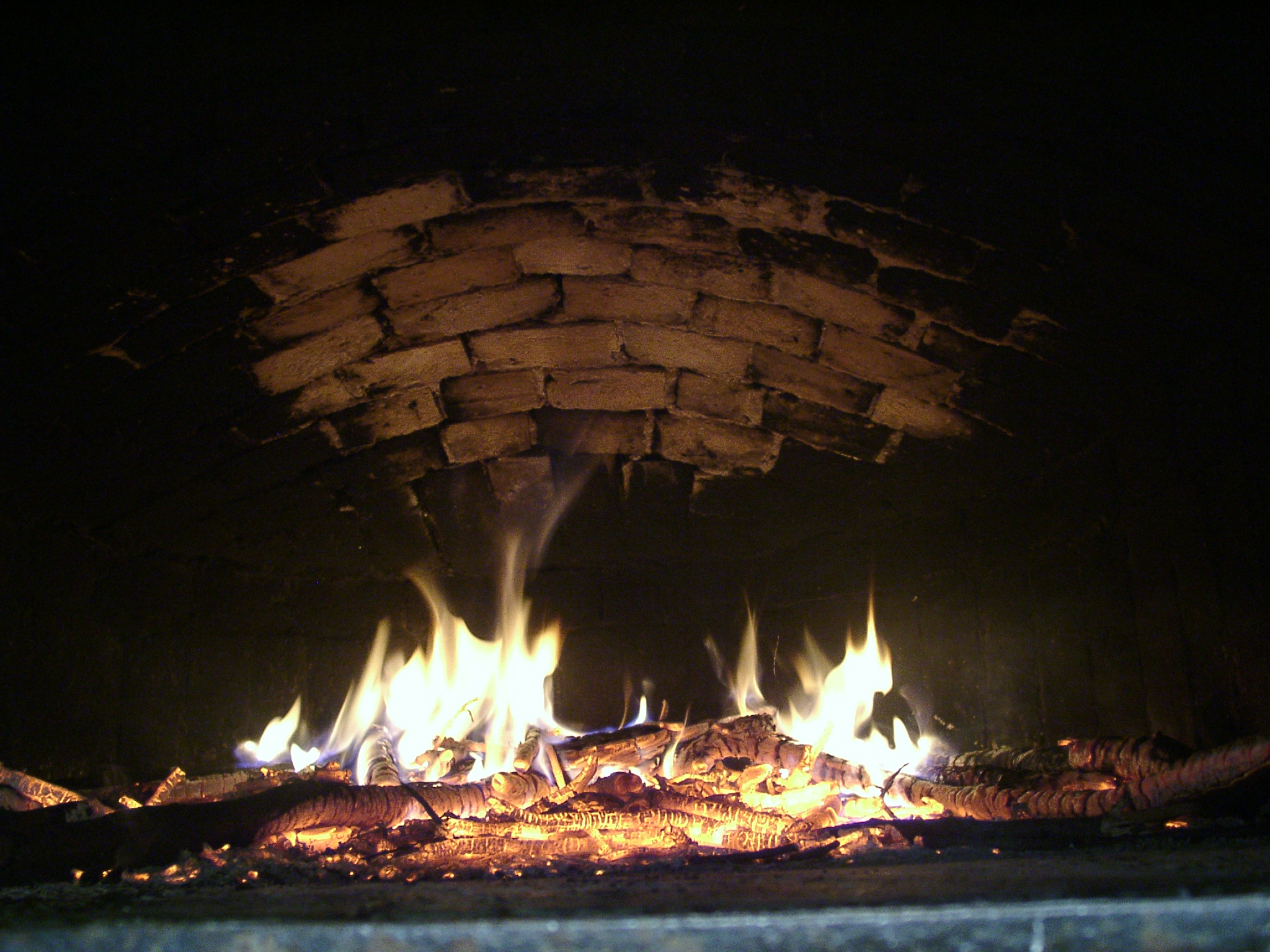 The temperature of a traditional brick bread oven may be gauged by the whitening of the surface of the bricks. This one is about ... well, you know. Quite hot.